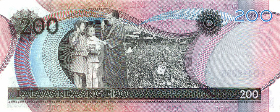 Back side of the New Design series 200-Philippine peso bill.